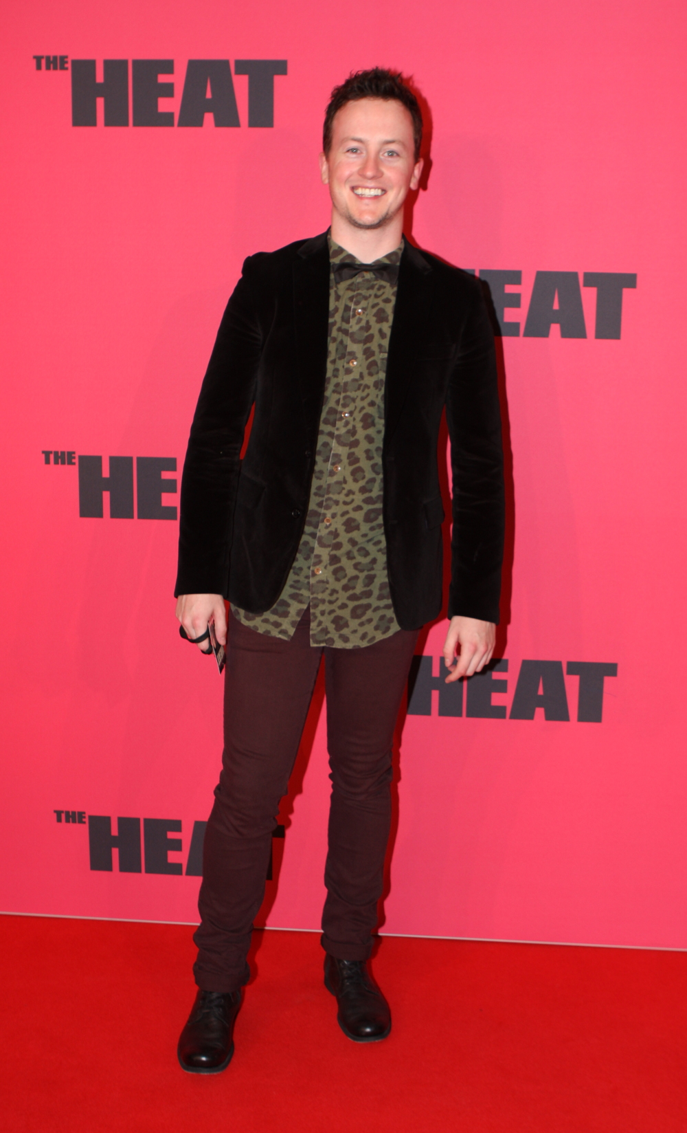 The Heat red carpet movie premiere in Sydney, Australia with Sandra Bullock - 2nd July 2013... Sandra Bullock, a good looking 48-year is in town to promote her new movie, The Heat. Early in the day she hopped a luxury boat on Sydney Harbour to enjoy our city. Event Cinemas in George Street says Bullock and Melissa McCarthy playing detectives in a cop comedy. Bullock plays successful, but highly highly strung FBI special agent Sarah Ashburn and is partnered with tough Boston cop Shannon Mullins (McCarthy). The girls are after a drug boss... of course. Early reviews and box office numbers demonstrate that Bullock's latest movie will be a thumbs up with fans and movie execs. The action-comedy grossed $US40 million ($43.7 million) - in second earnings place - in its opening weekend. Plot Outline: Uptight FBI Special Agent Sarah Ashburn (Sandra Bullock) and foul-mouthed Boston cop Shannon Mullins (Melissa McCarthy) couldn’t be more incompatible. But when they join forces to bring down a ruthless drug lord, they become the last thing anyone expected: buddies. From Paul Feig, director of “Bridesmaids.” Cast... Sandra Bullock as FBI Special Agent Sarah Ashburn Melissa McCarthy as Detective Shannon Mullins Dan Bakkedahl as DEA Agent Craig Demián Bichir as Hale Tom Wilson as Captain Woods Michael Rapaport as Jason Mullins Marlon Wayans as Levy Tony Hale as The John Taran Killam as Adam Nathan Corddry as Michael Mullins Kaitlin Olson as Tatiana Bill Burr as Mark Mullins Michael McDonald as Julian Lance Norris as Scruffy Bar Patron Jamie Denbo as Beth Jessica Chaffin as Gina Steve Bannos as Wayne Raw Leiba as Paint Factory Henchman Joey McIntyre as Peter Mullins Paul Feig as Doctor Websites The Heat 20th Century Fox Eva Rinaldi Photography